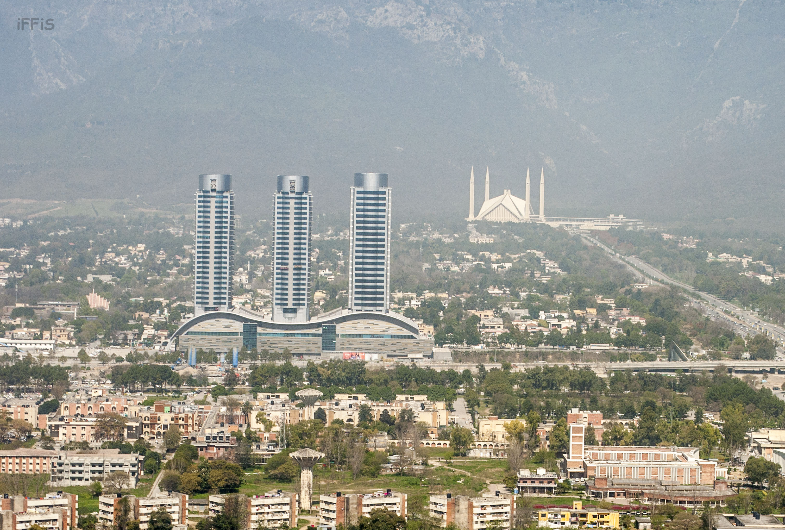 Faisal Mosque in the foothills of Margalla Hills, seen here behind the Centaurus Mall This is a photo of a monument in Pakistan identified as the ICT-5